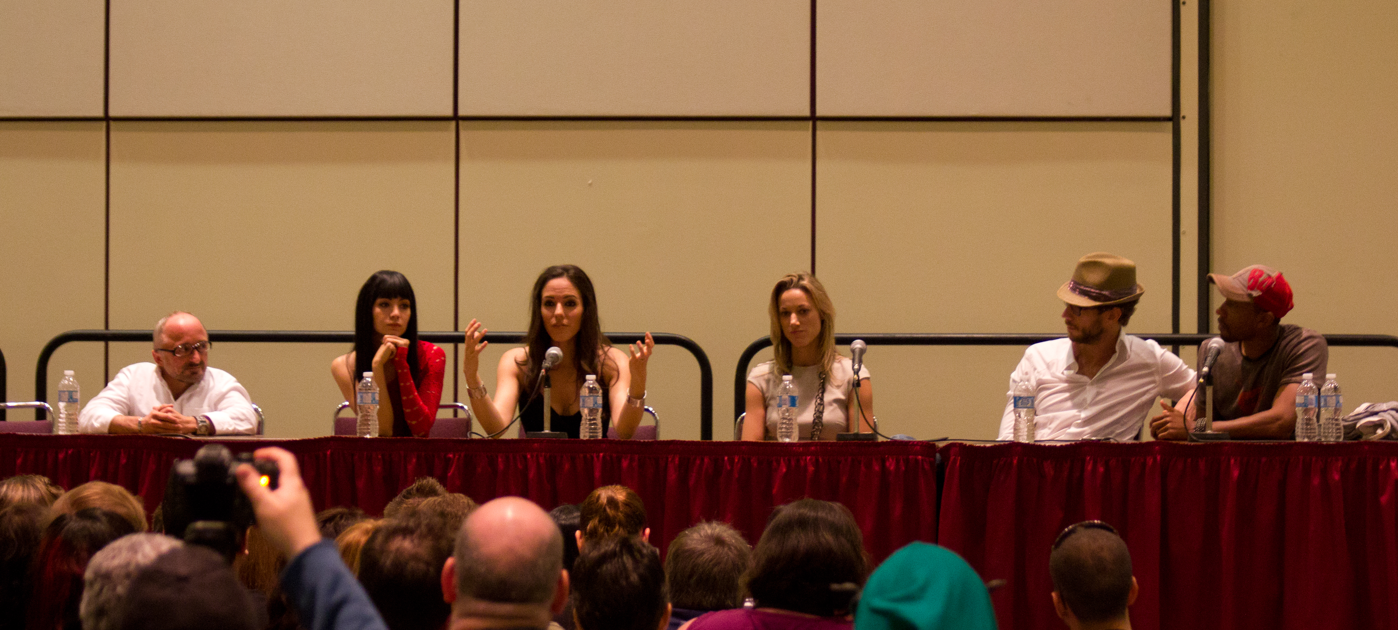 The cast of the show Lost Girl. From left: Rick Howland, Ksenia Solo, Anna Silk, Zoie Palmer, Kris Holden-Ried and K.C. Collins